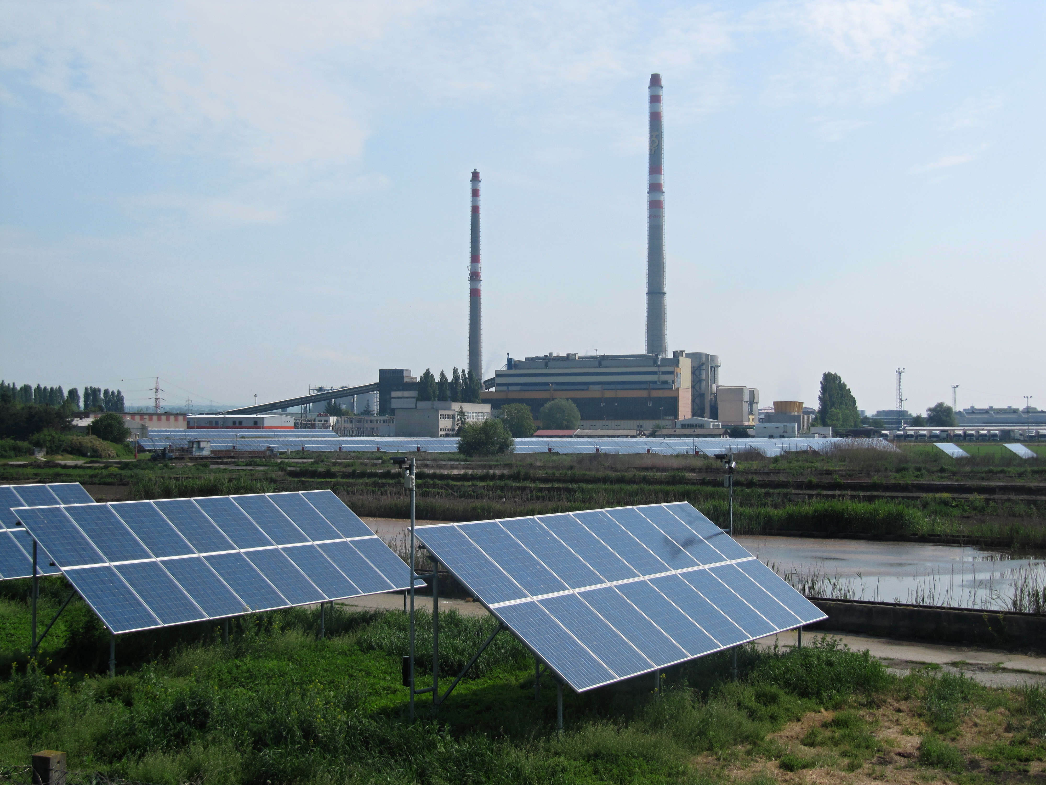 Otrokovice in Zlín District, Czech Republic. Chimneys of heating plants, dominant of Otrokovice neighborhood.